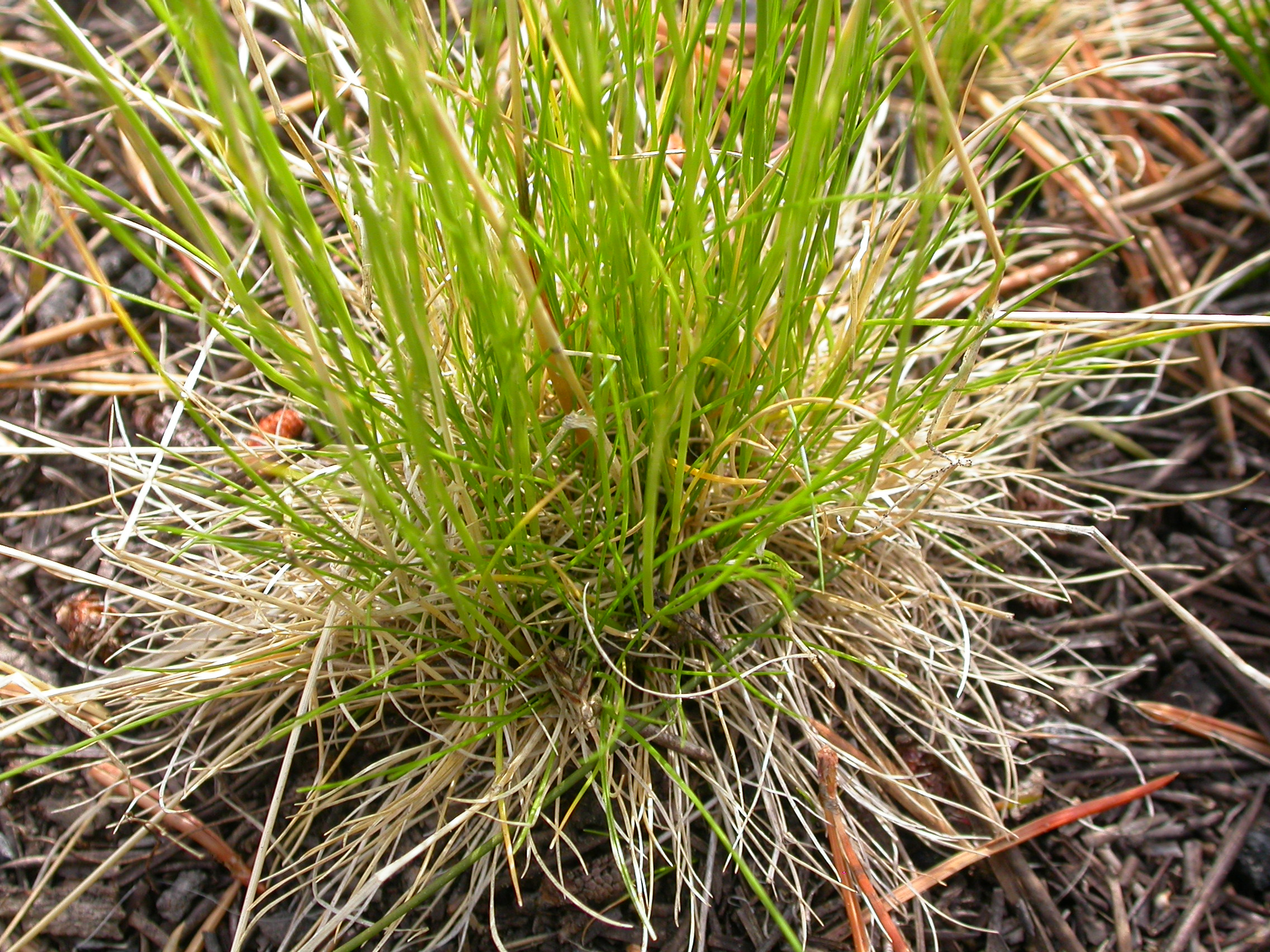 Unit of Deschampsia elongata, a typical hairgrass of North American the mountain coniferous forests.